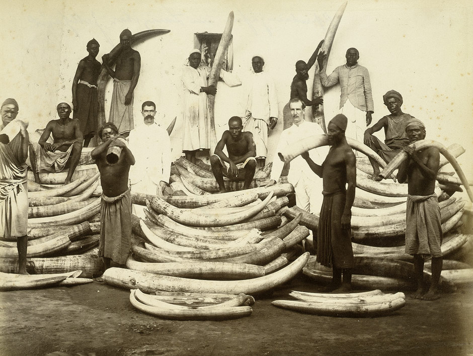 Ivory trade, East Africa, 1880s/1890s Some slightly faded, otherwise most in good condition.